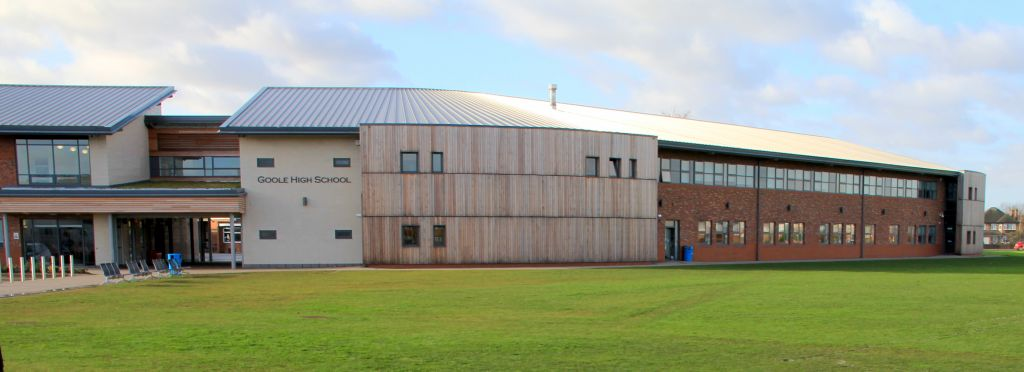 Picture of the Goole High School, Goole, East Riding of Yorkshire, England.As it looks now.